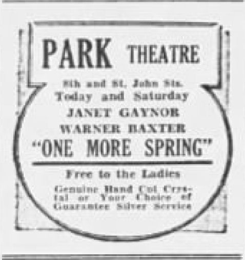 Park Theater advertisement for the American film One More Spring (1935) - 26 Apr. 1935 Morning Call, Allentown PA